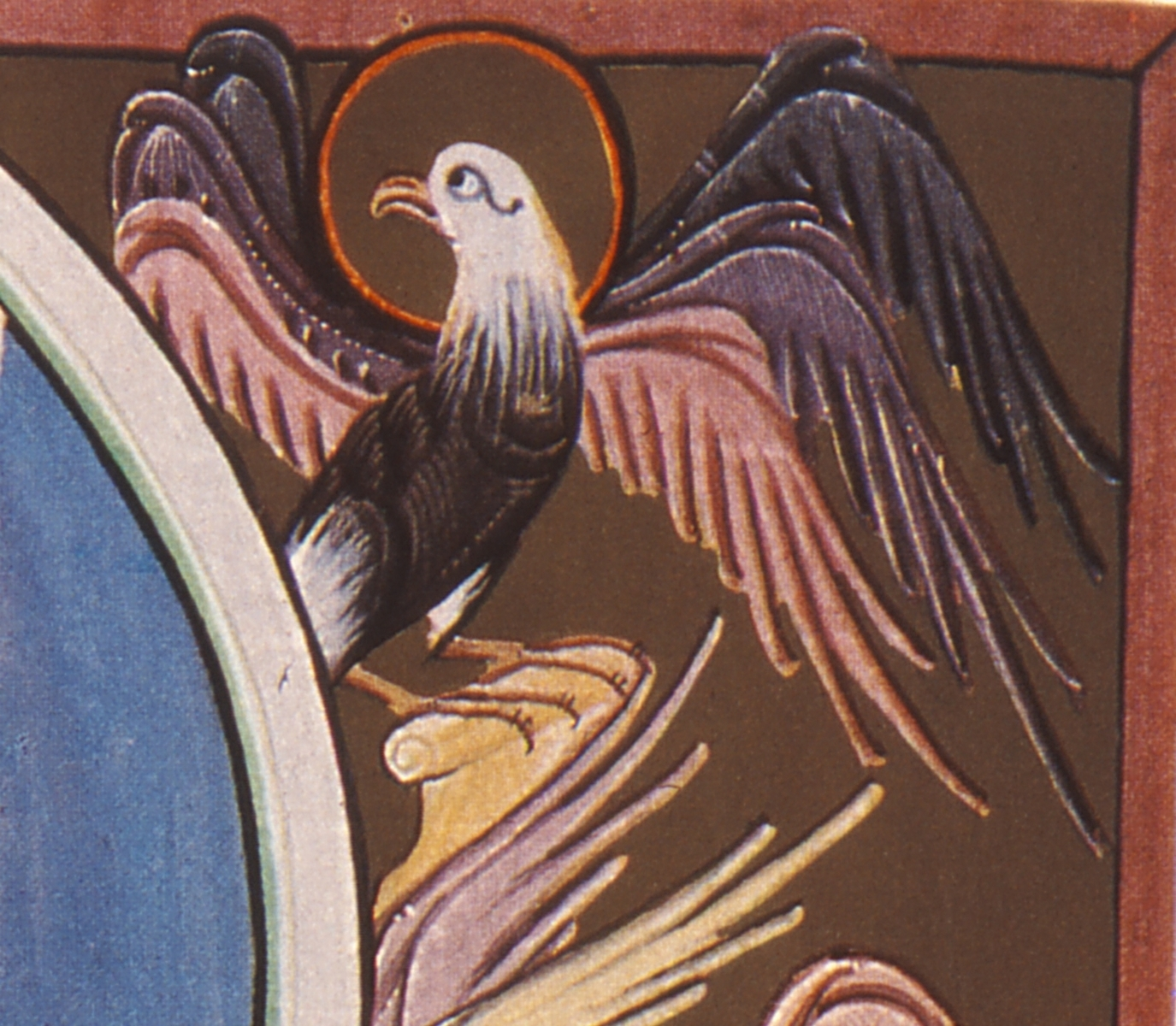 The Eagle